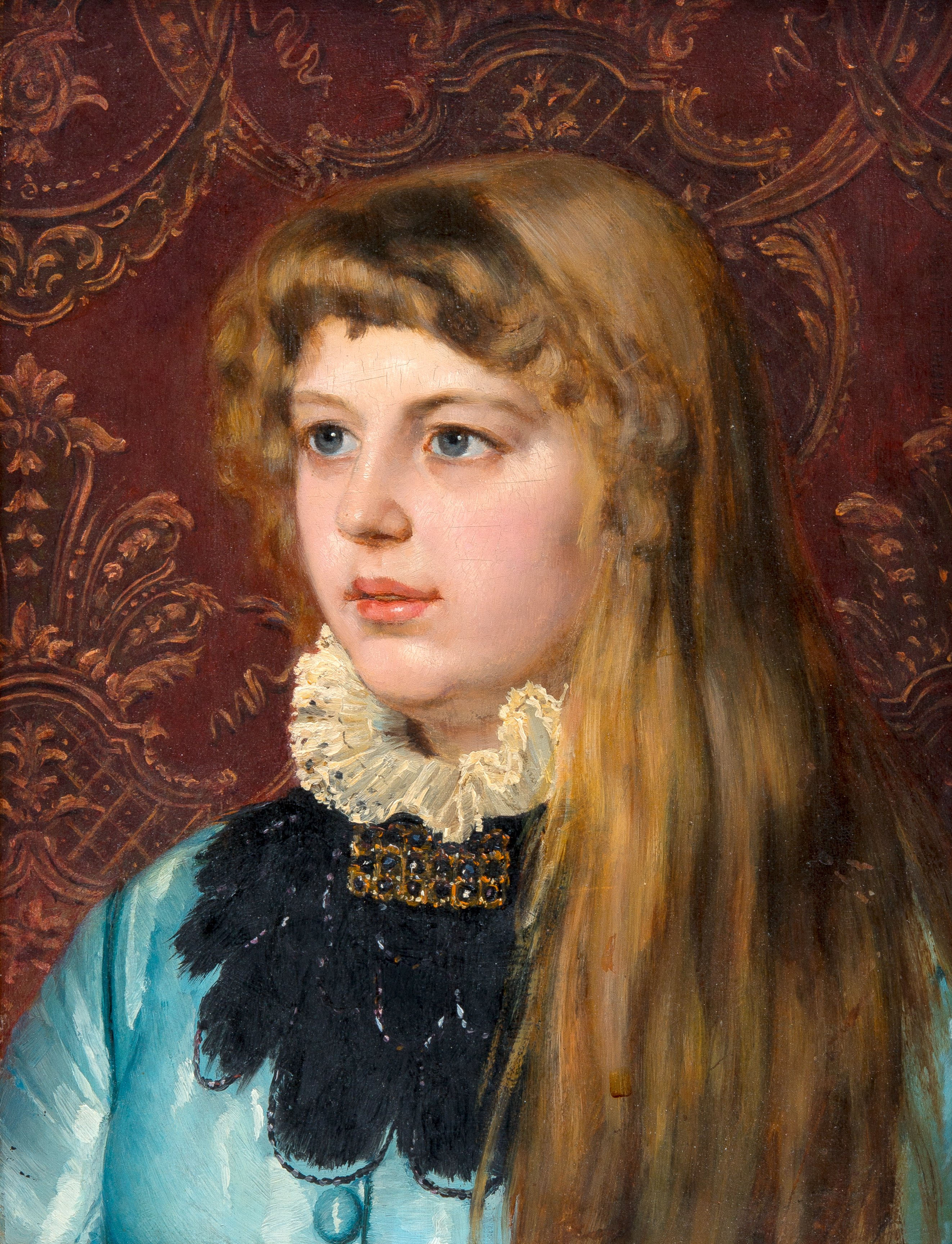 Arvid Liljelund: Young girl in an evening gown, 1881. Oil on board 35x26,5 cm.